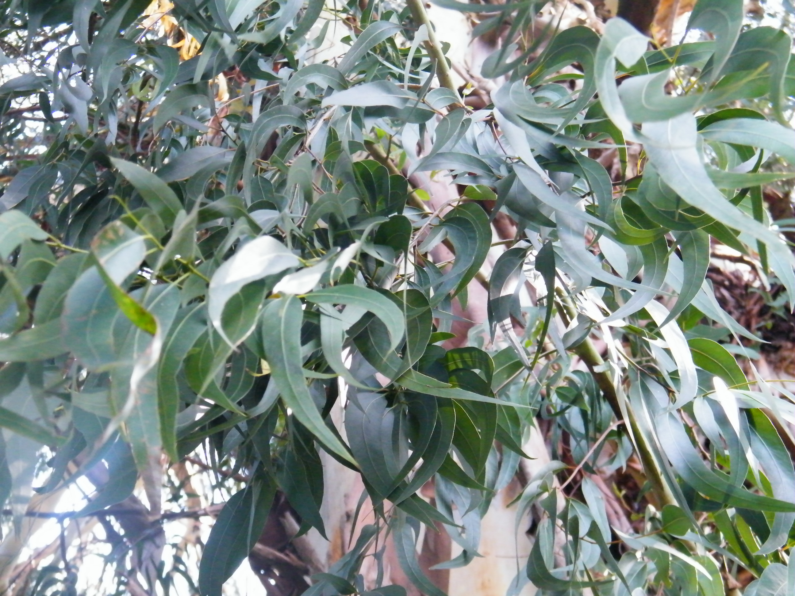 Leaves of Eucalyptus viminalis